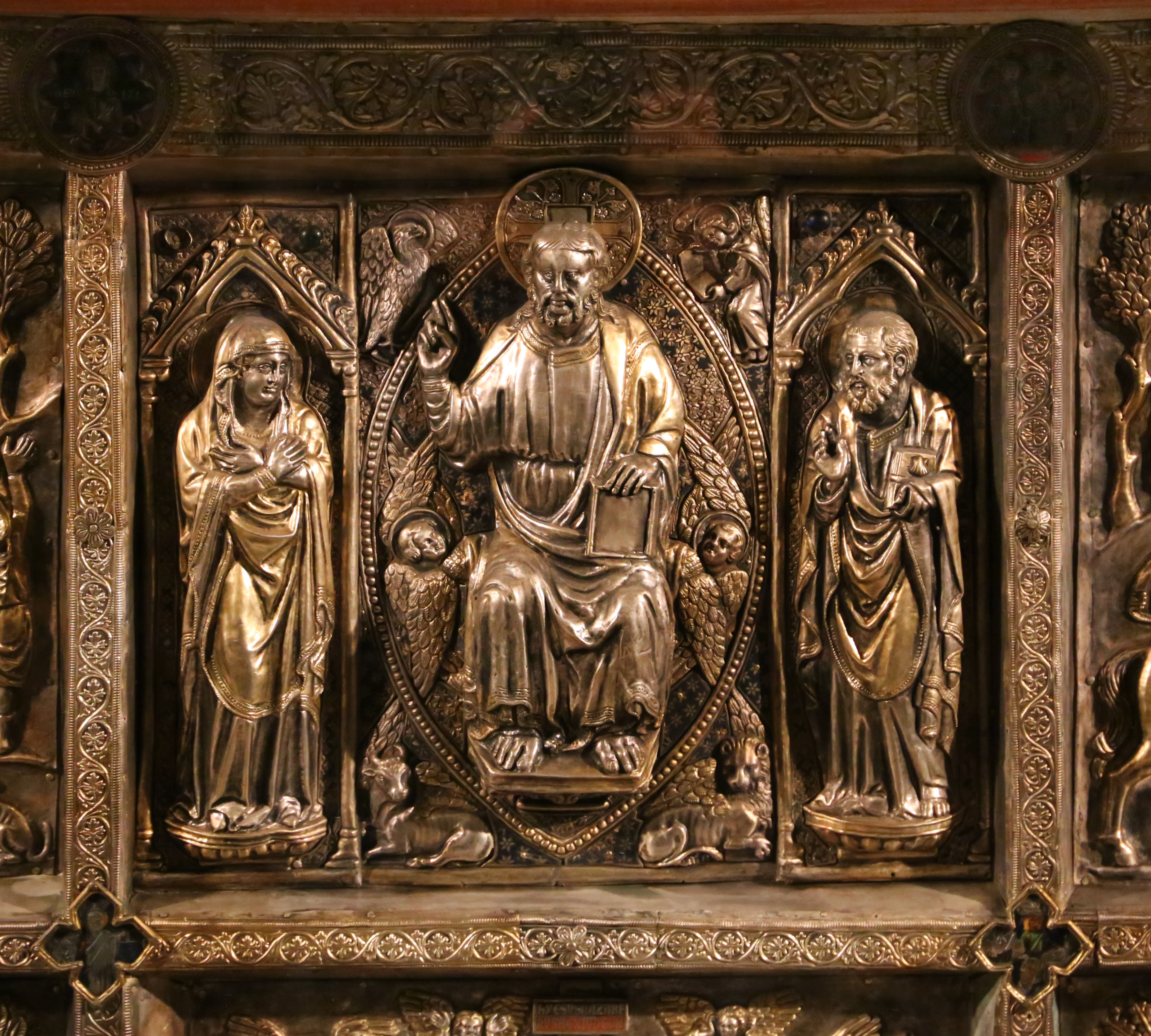 Silver Altar of Saint James